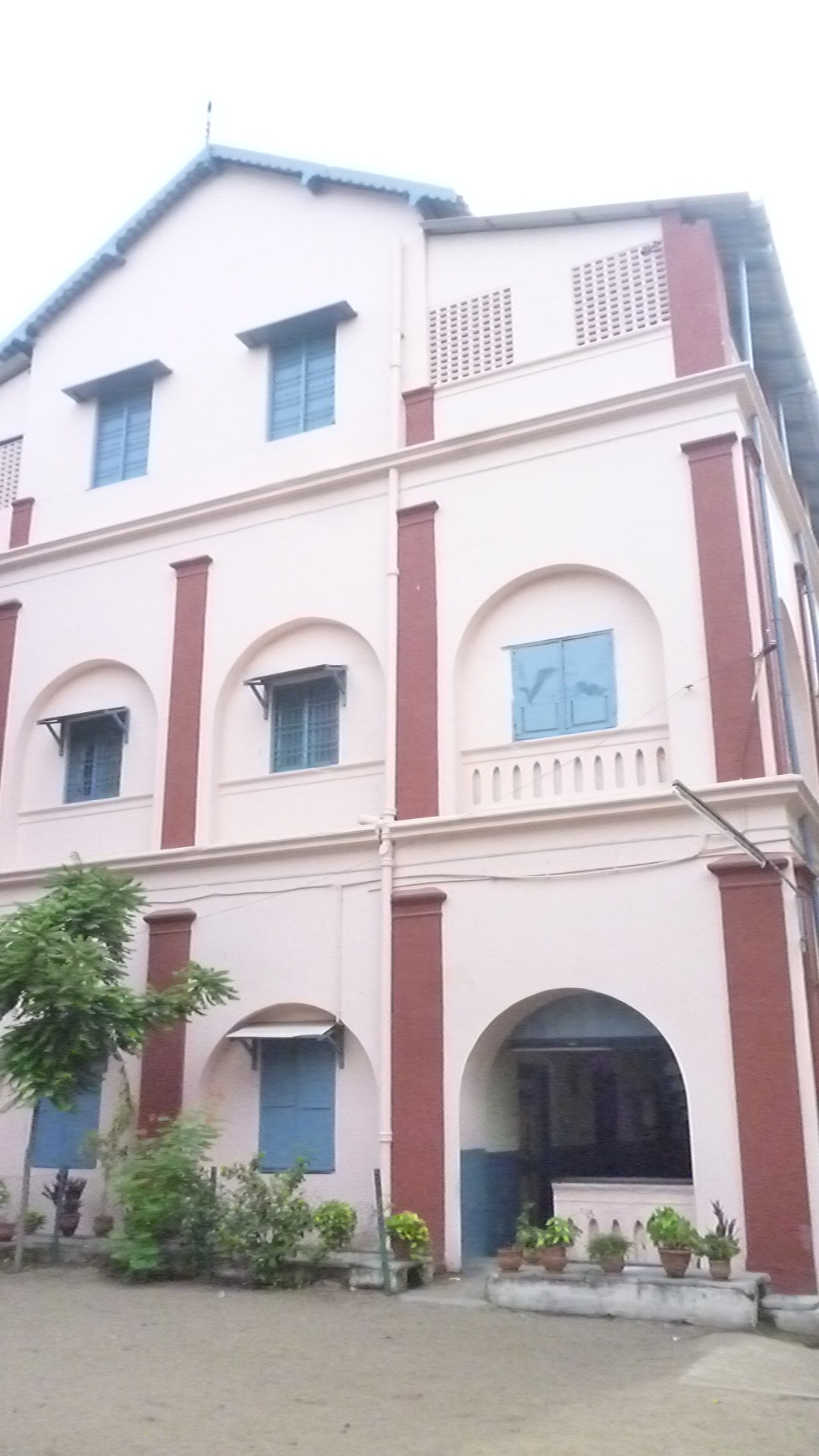 Nagle Block of SJAIHSS, Perambur, Chennai